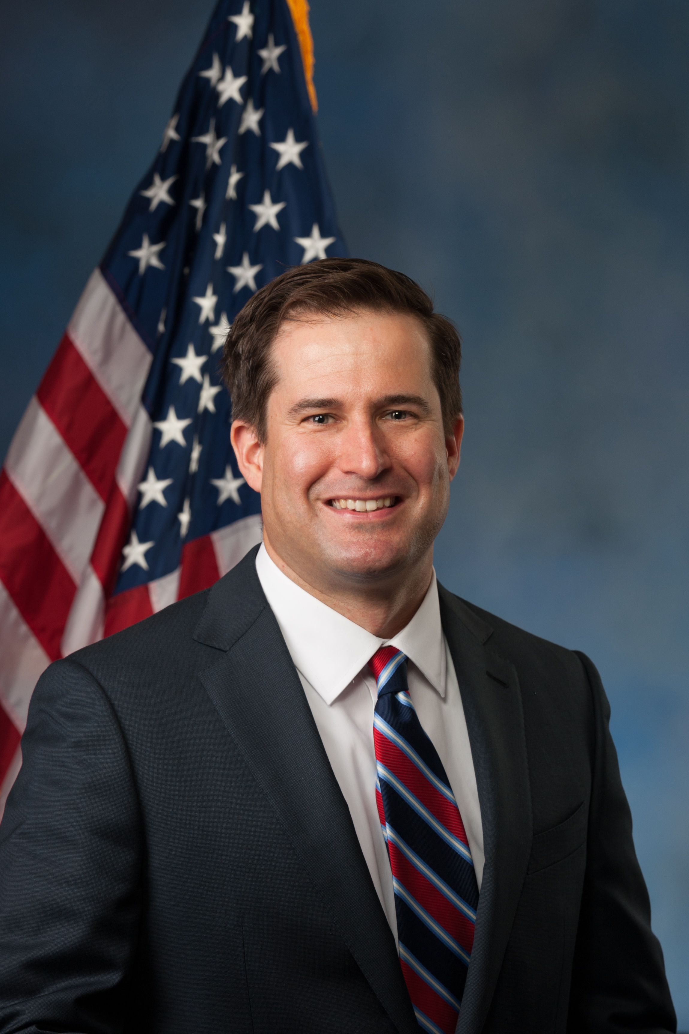 Official photo Seth Moulton, US Representative